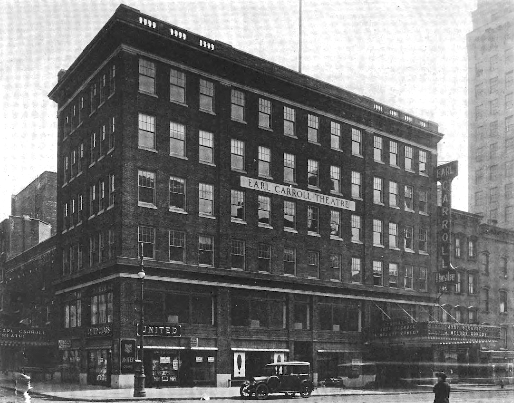 Earl Carroll Theatre, 7th Ave. and 50th St., New York, N. Y. The 7th Ave. marquee (lower right) reads: "Just Because/A Melody Comedy", announcing the show which opened the theater on March 22, 1922. "Just Because Opens", The New York Times (March 23, 1922)